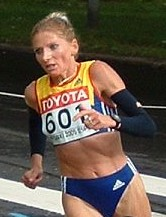 Constantina Diţă-Tomescu during the Women's Marathon. 2005 World Championships in Athletics, Helsinki, Finland , 14. August 2005